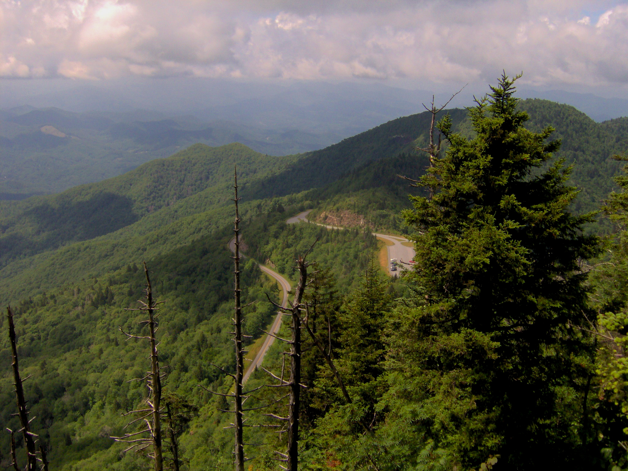 The Blue Ridge Parkway (left) and Waterrock Knob Road (right), viewed from the 6292-foot (1918-meter) summit of Waterrock Knob in the Plott Balsams of the U.S. state of North Carolina.